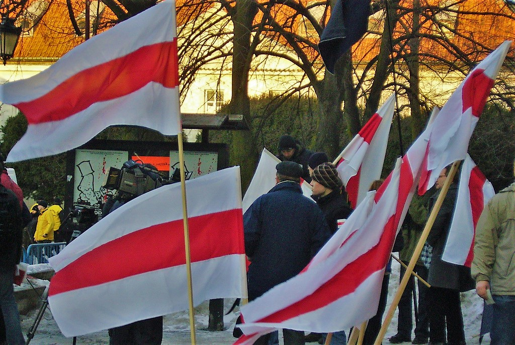 the concert "Solidarity with Belarus"- koncert "Solidarni z Białorusią"March the 12th 2006, Warsaw - New Town Market